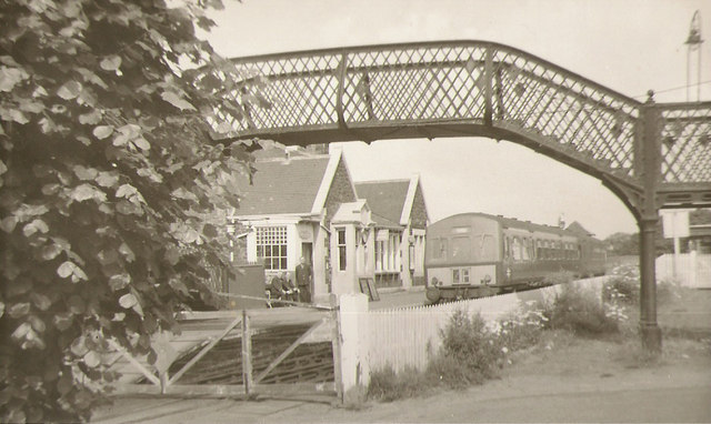 Newport-on-Tay East station A Dundee train halts at Newport-on-Tay East, after crossing the famous Tay bridge.